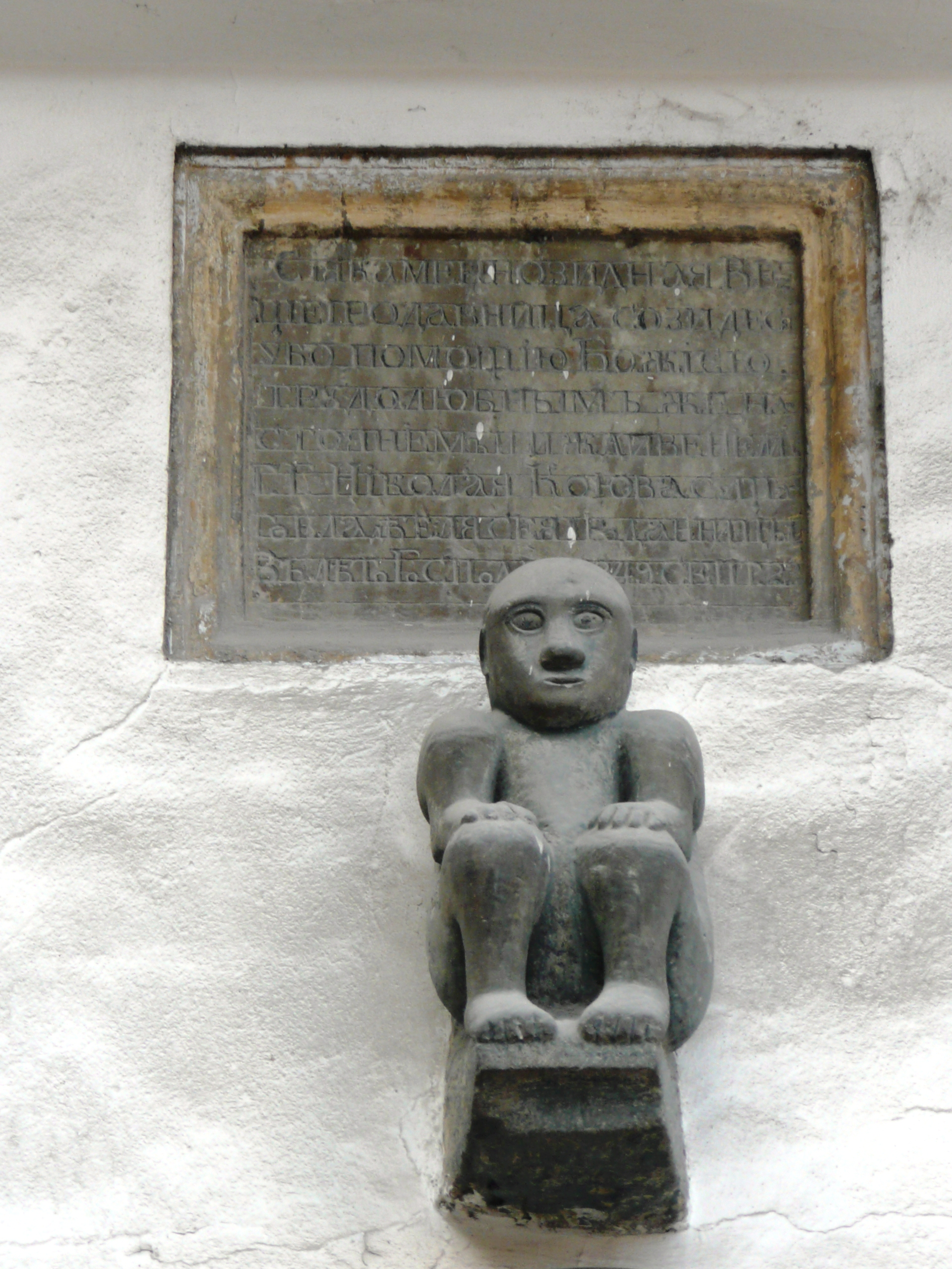 a detail from the facade of the so-called House with the monkey, built by Kolyu Ficheto in Veliko Turnovo (1849)